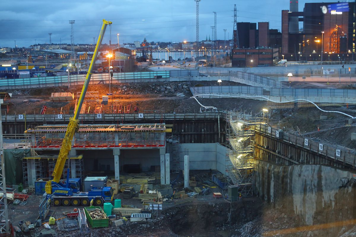 Red's and SRV construction in Kalasatama Helsinki. Original 5472x3648 pix.